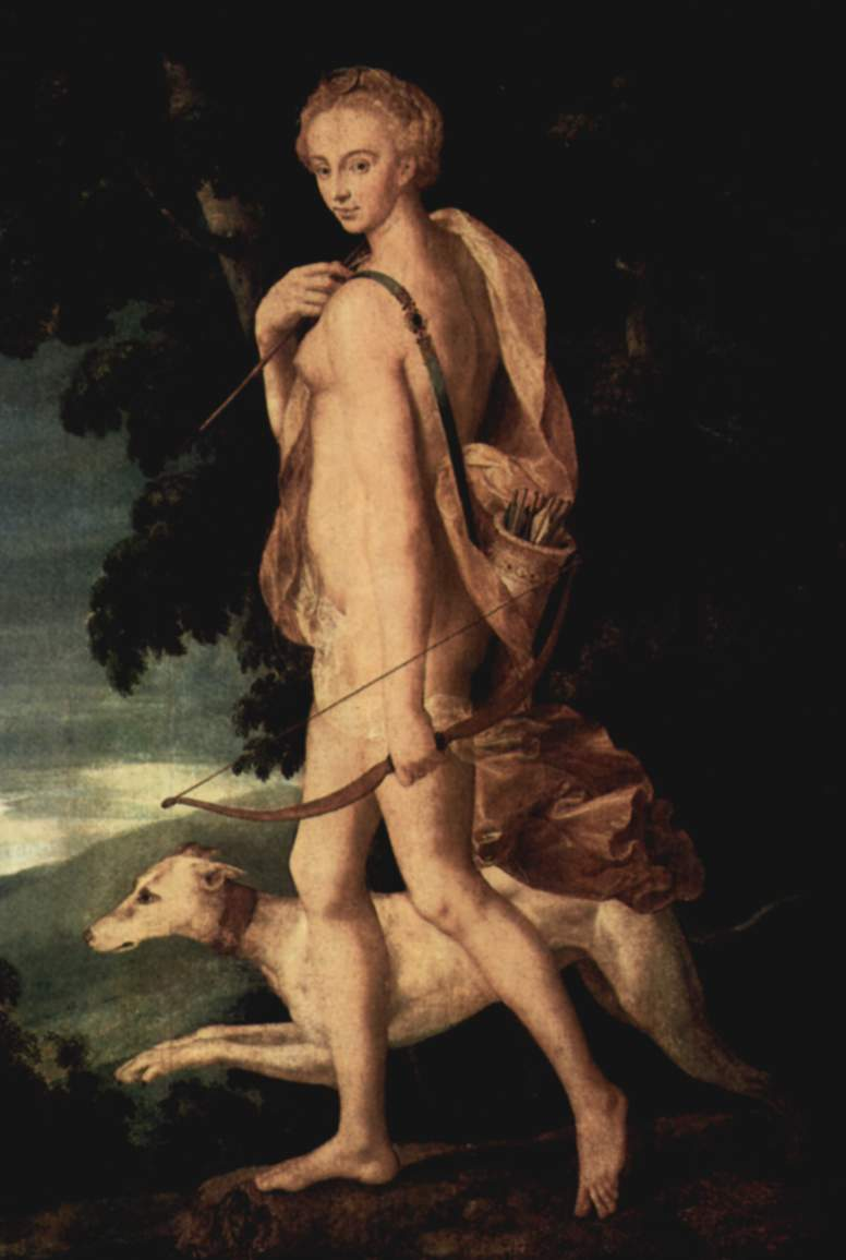 detailwithout frame